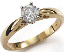 A picture I took of a diamond ring that uses a Tiffany mount.